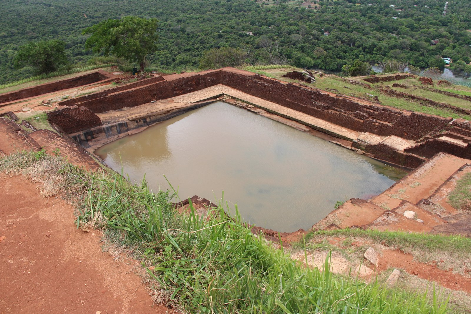 Presumably old swimming pool on the top Lion Rock Sri Lanka